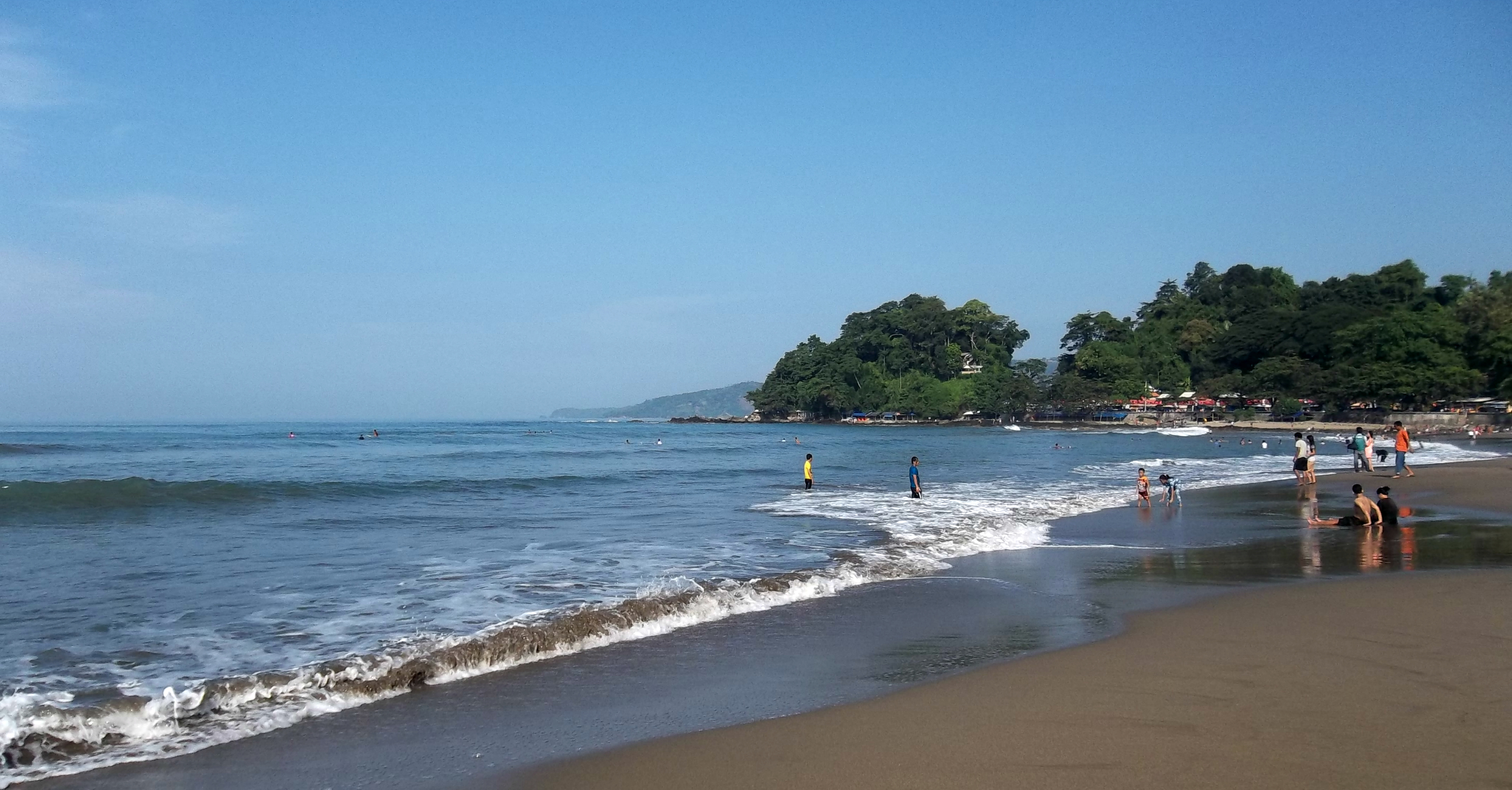 Karang Hawu Beach, Pelabuhan Ratu, Sukabumi, Jawa Barat, Indonesia.